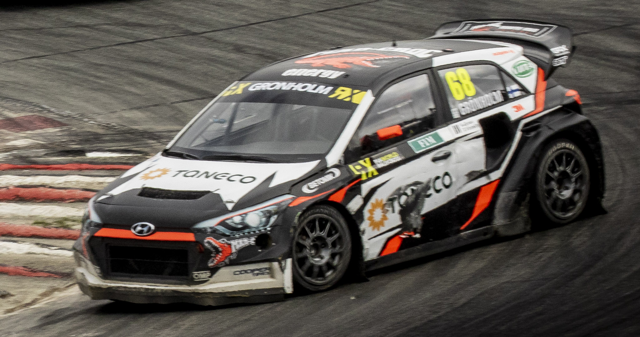 2018 FIA World Rallycross Championship // Round 5, Hell, Norway // Credit: EKS Audi Sport